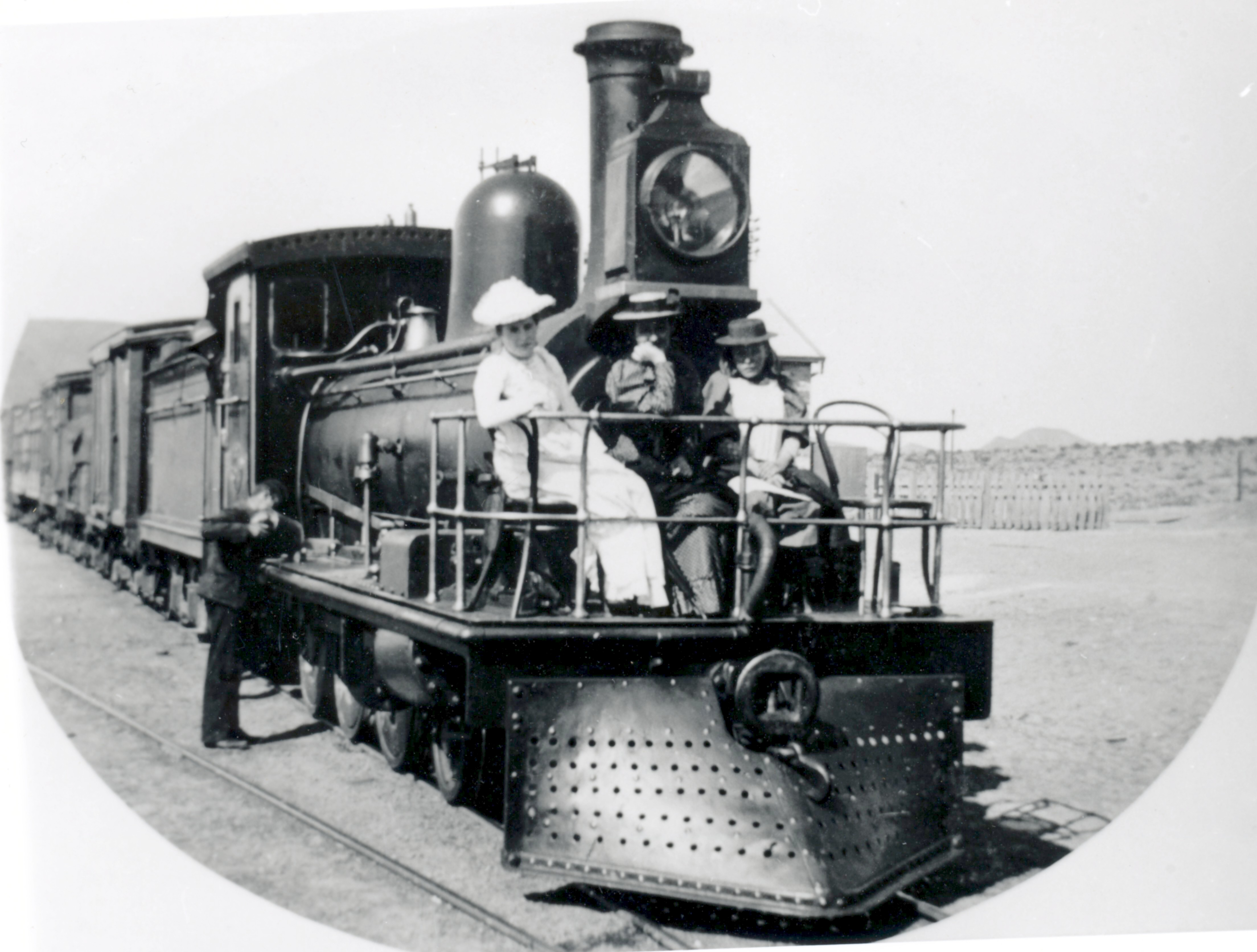 The ample front porch of a Cape Government Railways 4th Class 4-6-0TT "Converted Joy" locomotive is put to use by some ladies